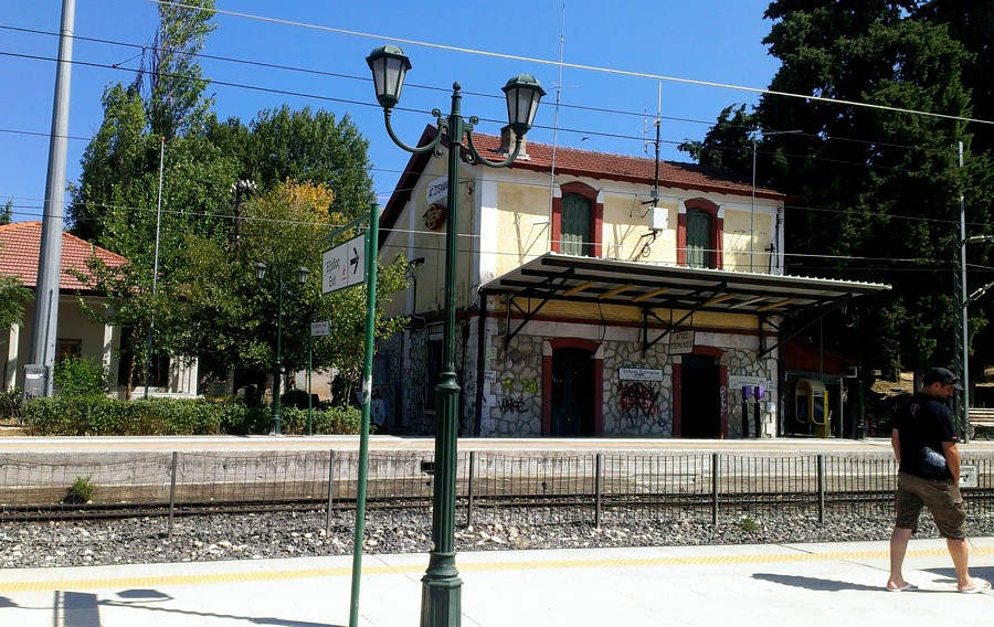 oion-stathmos